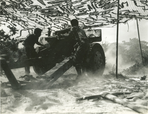 Members of the 442nd RCT fire a 105mm howitzer during the battle for Leghorn, 12 July 1944, Castellina Sector, Italy. ID Number: SC340910